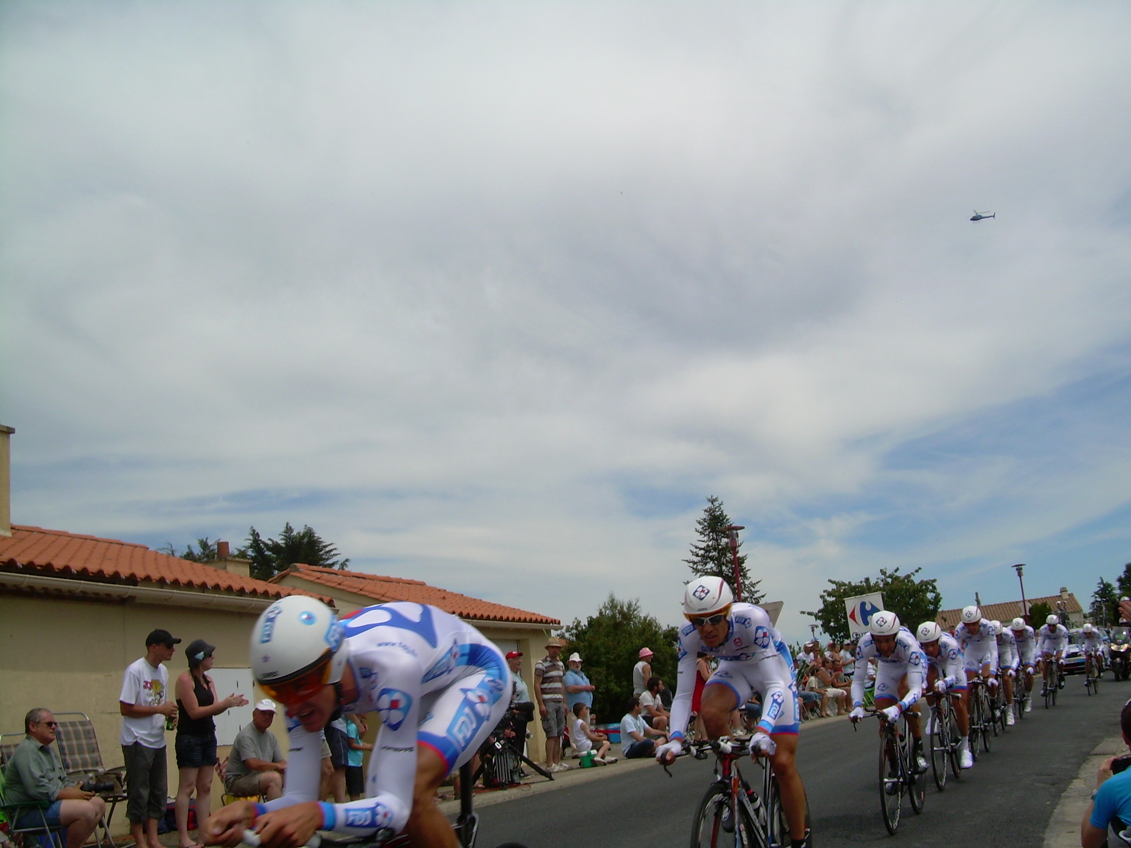 FDJ during the second stage of the 2011 Tour de France.